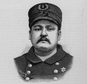 Police officer Degan, killed in Haymarket Riot, 1886